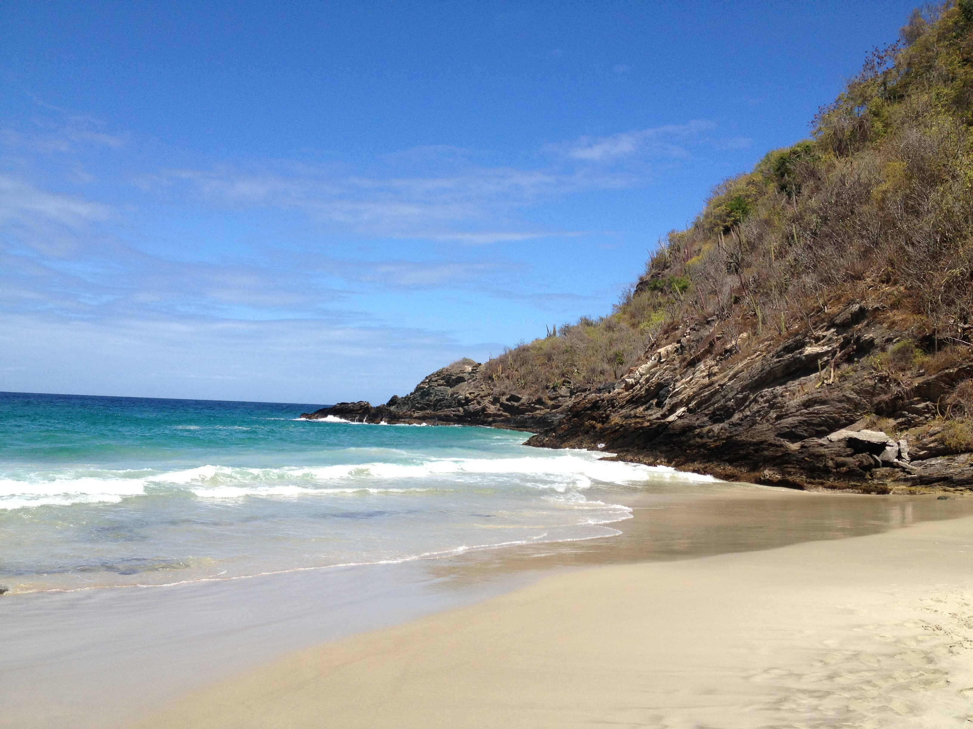 Playa Juan Andrés Venezuela